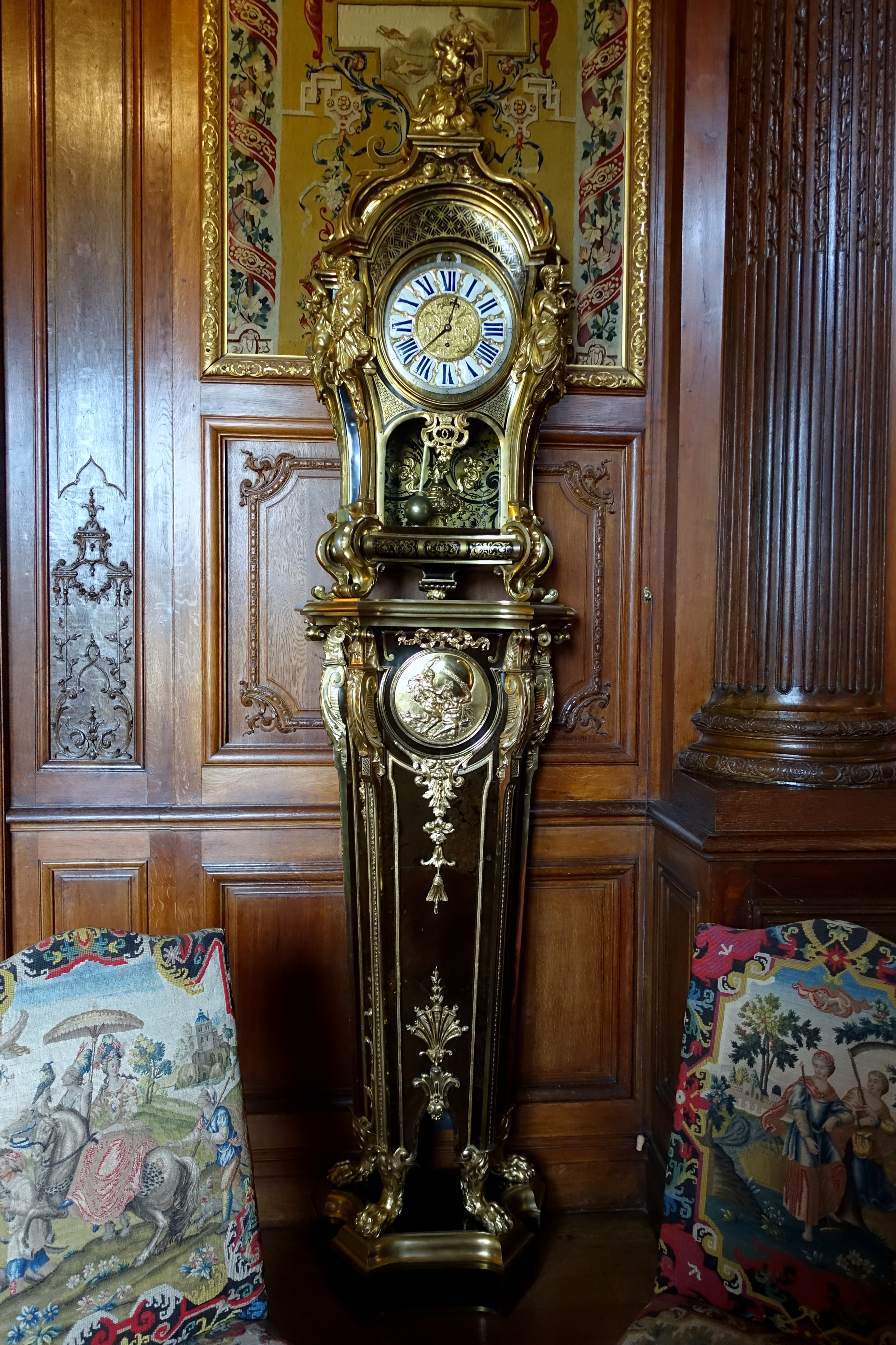 Item in Waddesdon Manor - Buckinghamshire, England.